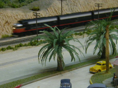 Diorama at the San Diego Model Railroad Museum